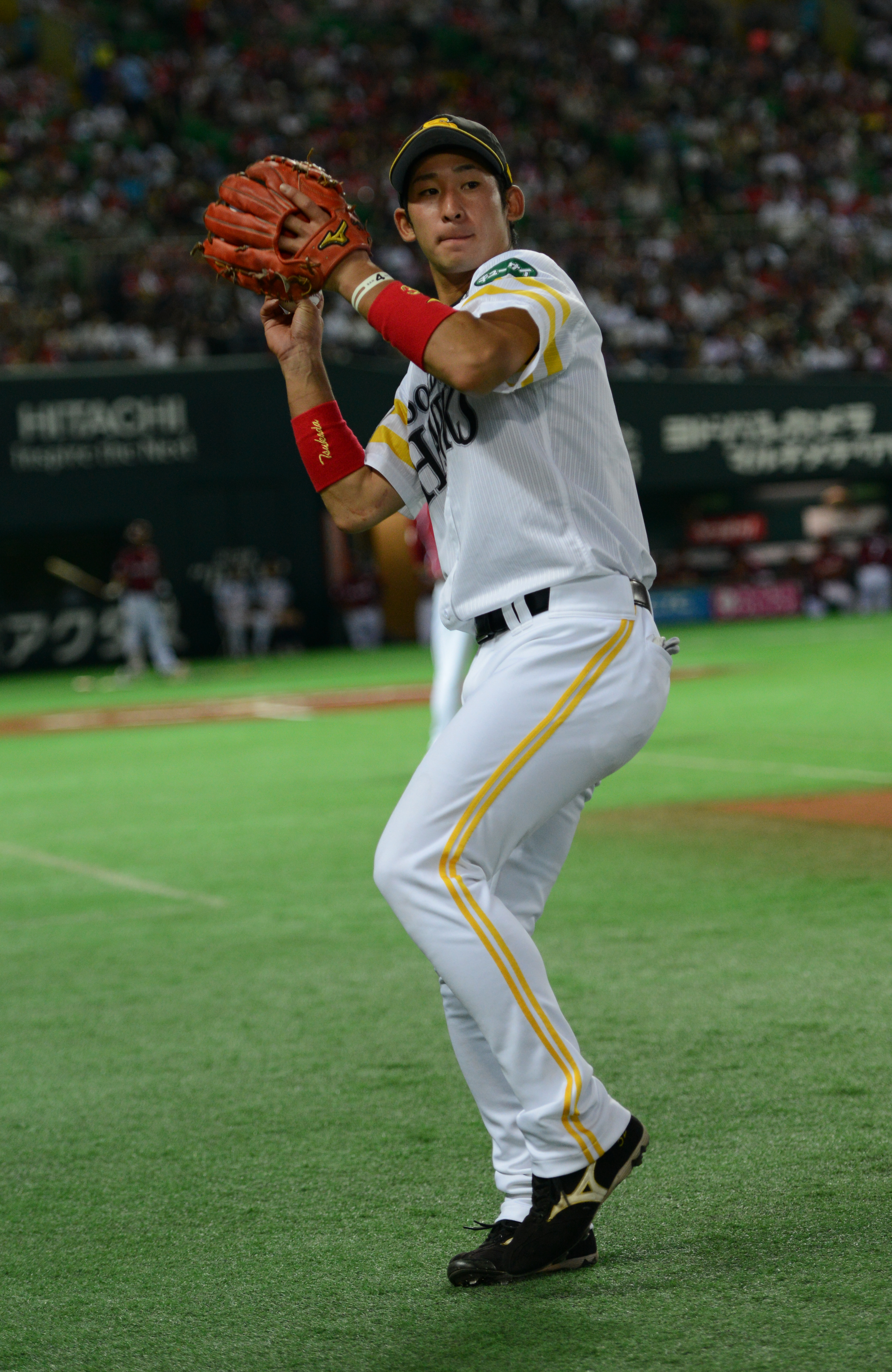 Masayoshi Tsukada, infielder of the Fukuoka SoftBank Hawks, at Fukuoka Dome.